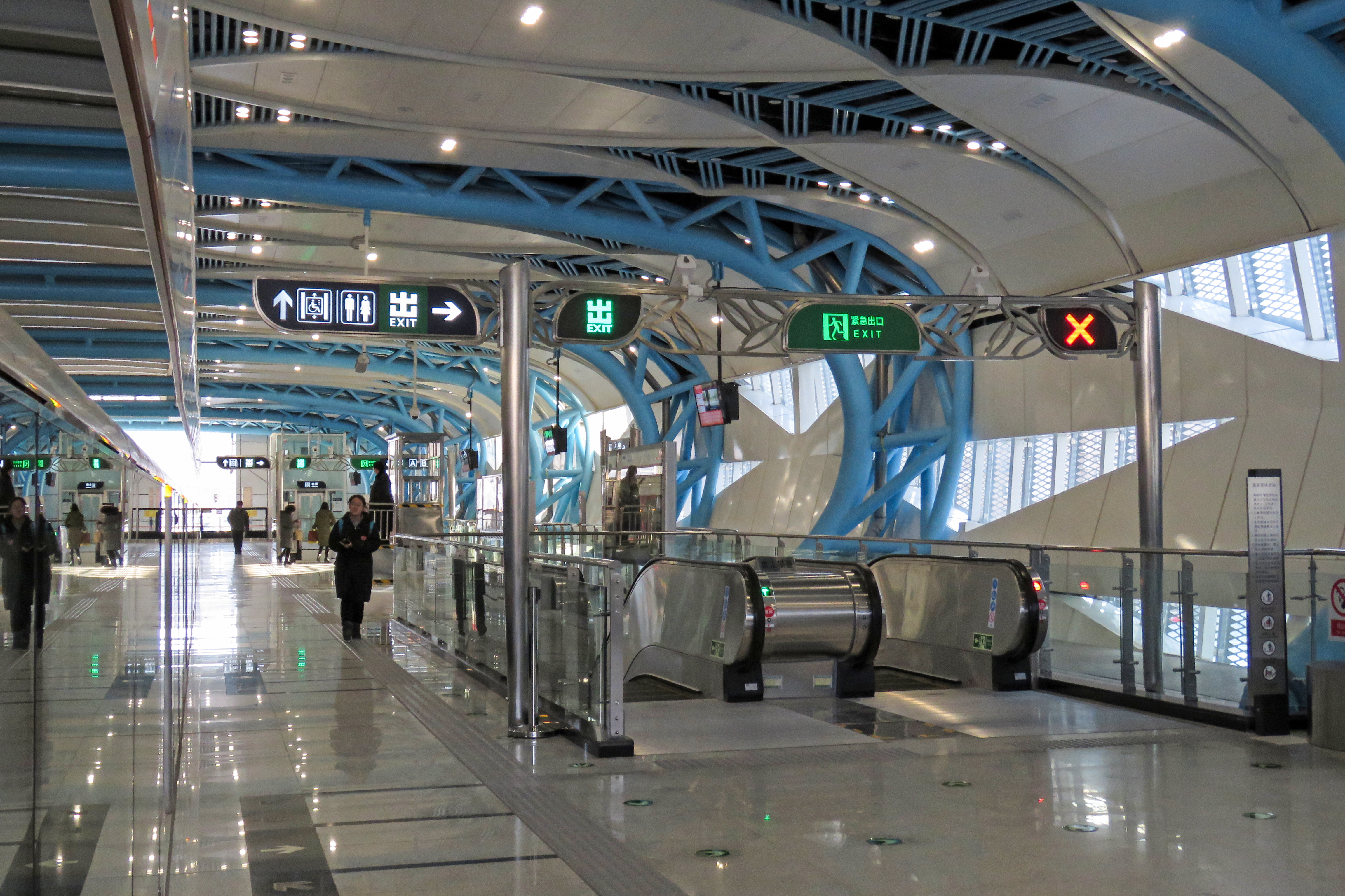 Westbound and also southbound. Light blue like SML9.